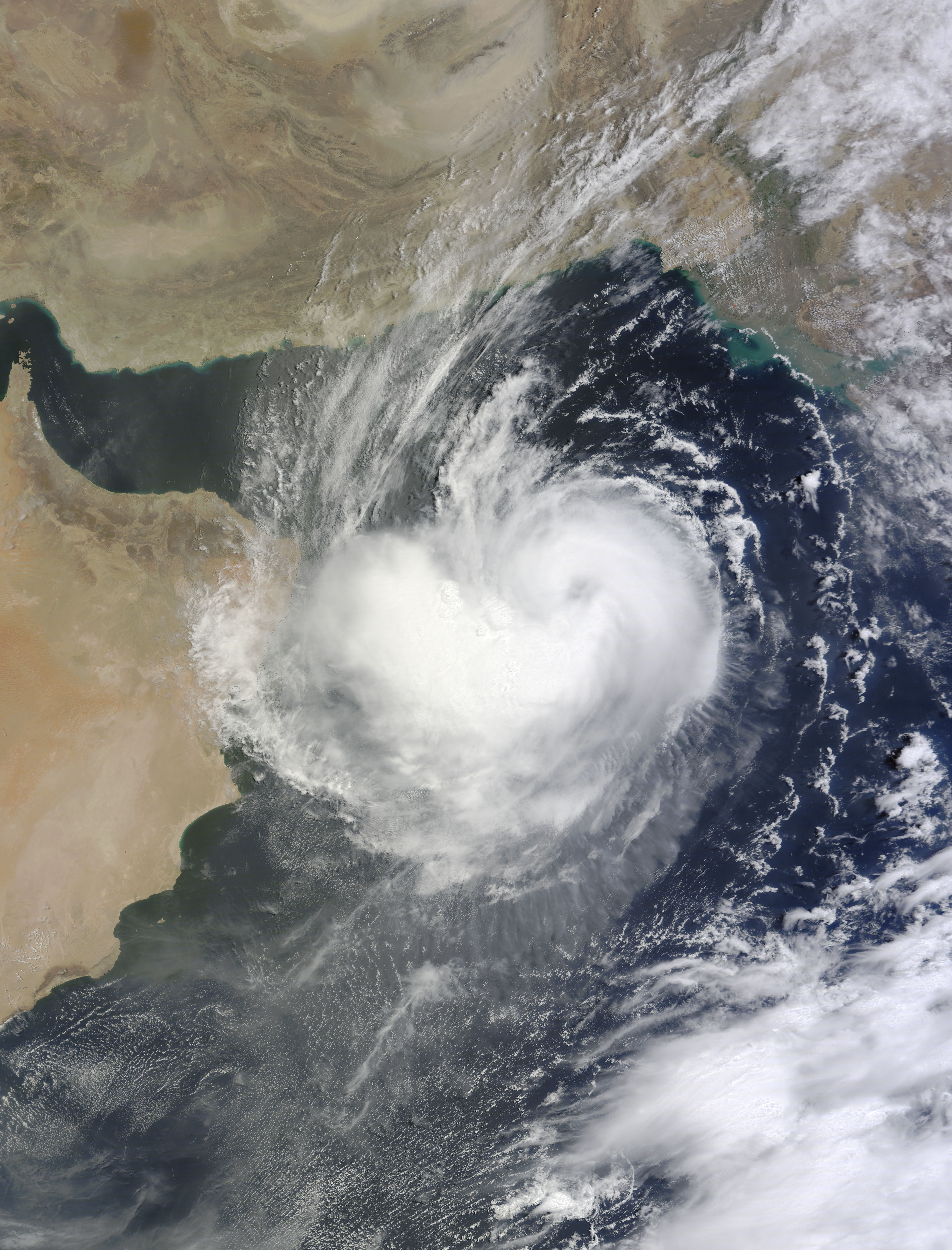 Cyclone Ashobaa over the Arabian Sea on June 9, 2015.